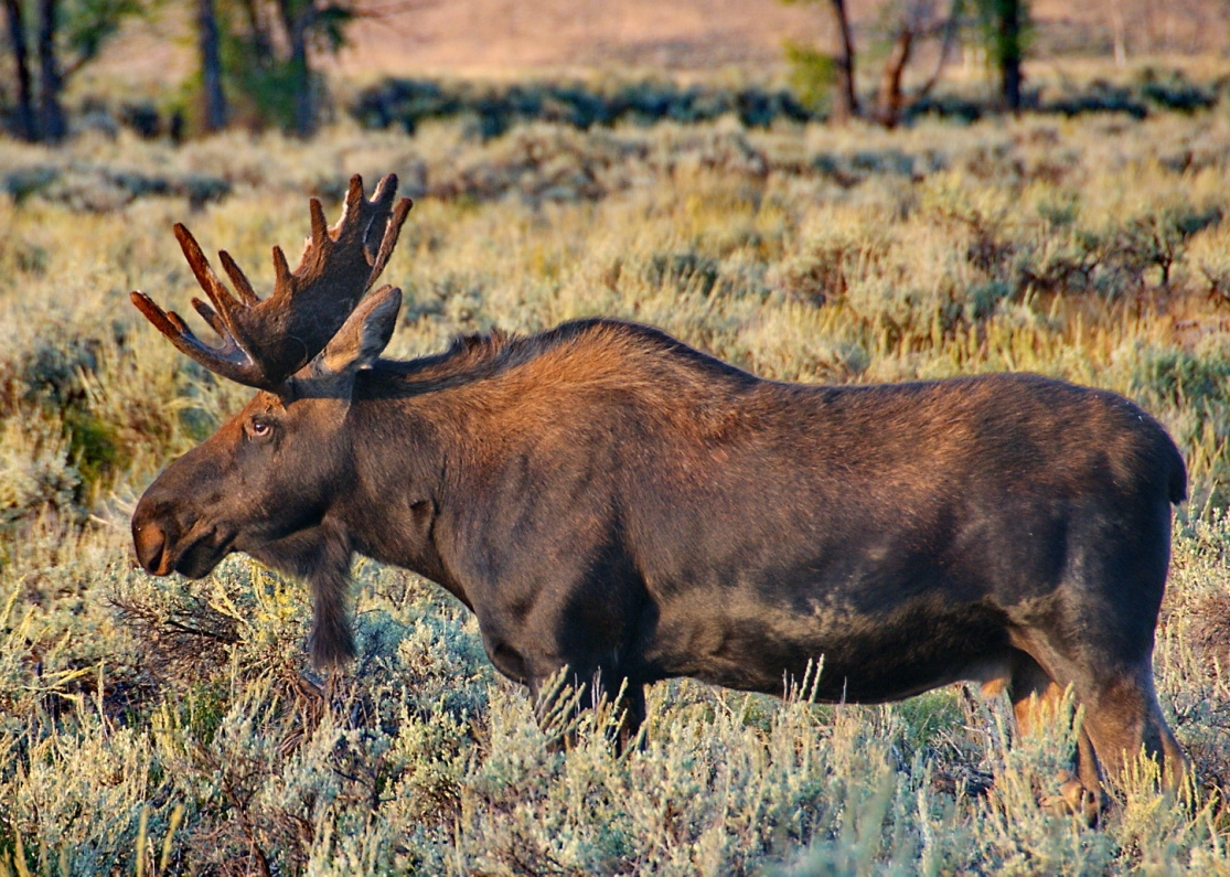 Moose in Gros Ventre Campgroud 4